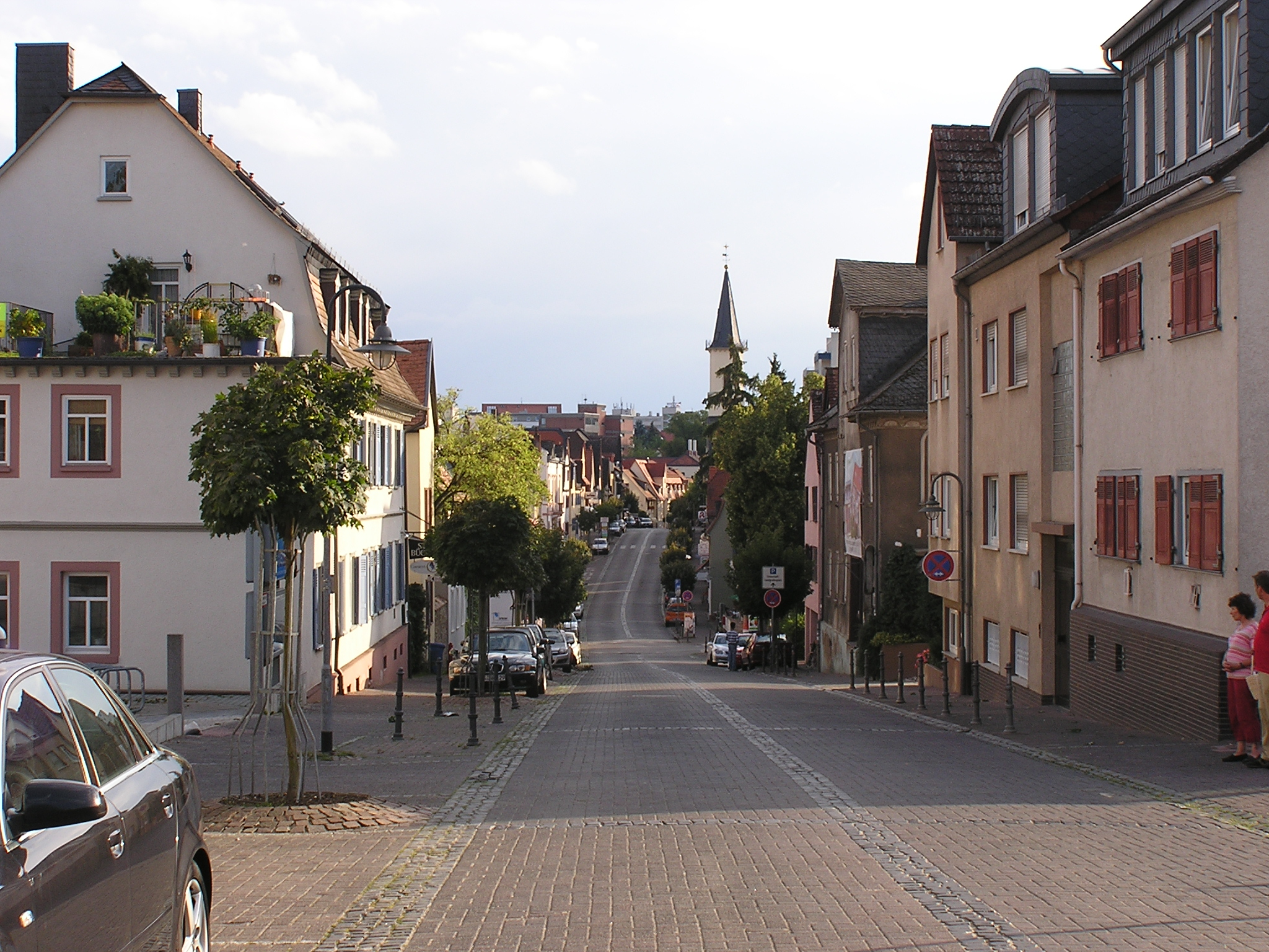 Eastern part of the 'Hugenottenstraße in Friedrichsdorf, view to west